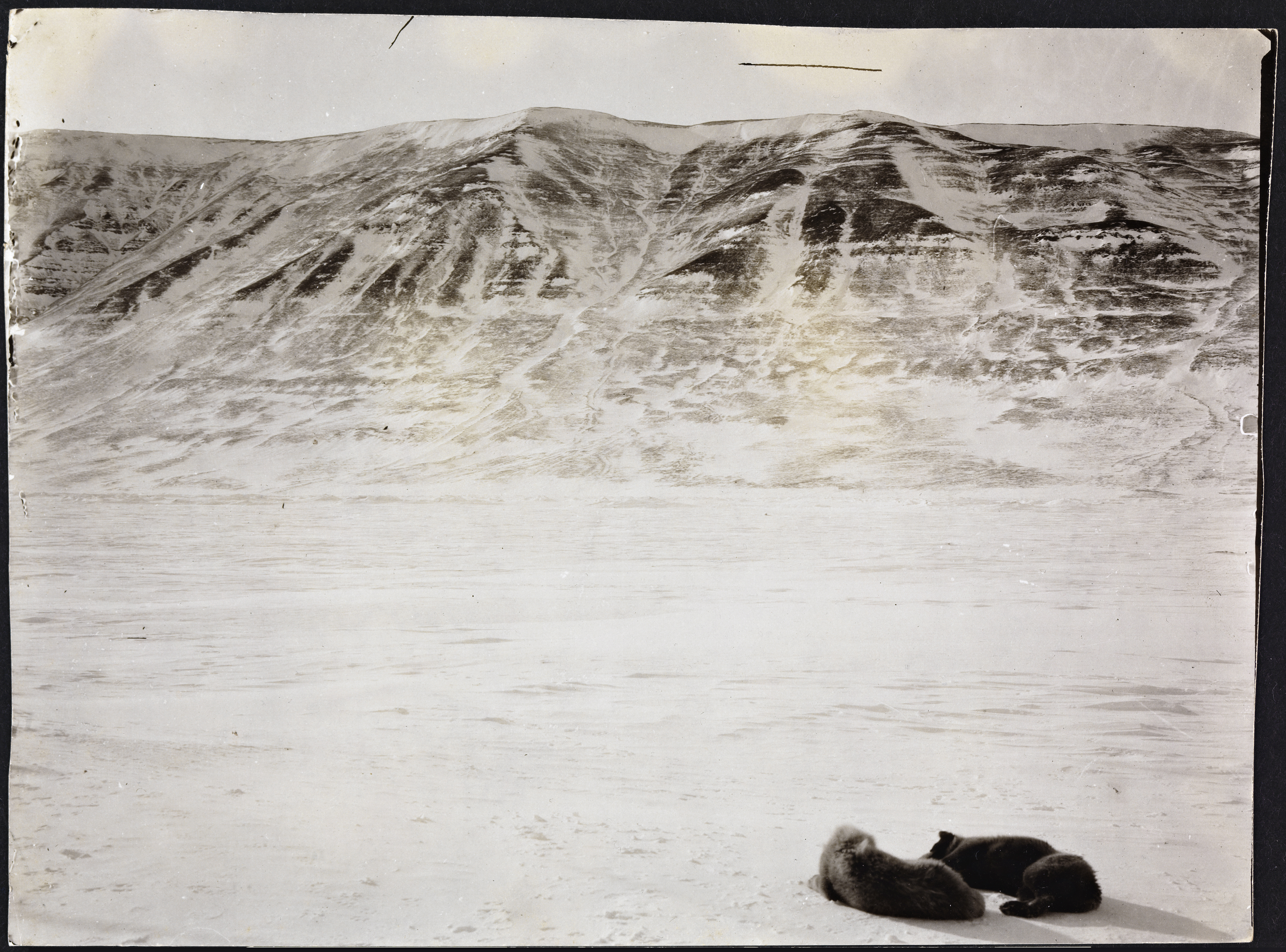 Beskrivelse / Description: 2. Fram-ekspedisjon: Nord-vest-Grønland og øyene nord for Øst-Canada : 1898-1902 / 2nd "Fram" expedition : Northwest Greeland and the islands North of East Canada Dato / Date: 1898-1902 Sted / Place: Arktis / the Arctic Fotograf / Photographer: ukjent / unknown Digital kopi av original / Digital copy of original: s/h papirpositiv Eier / Owner Institution: Nasjonalbiblioteket / National Library of Norway Lenke / Link: Bildesignatur / Image Number: bldsa_SVpos_212